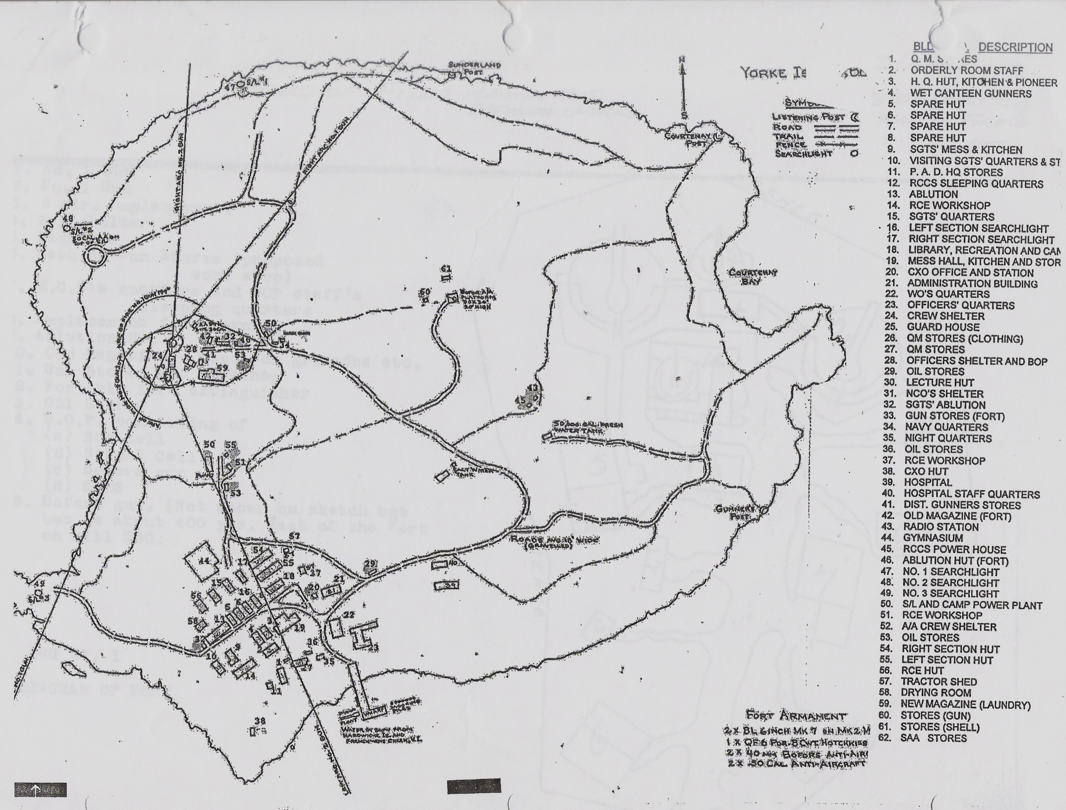 Historical Map of Yorke Island with all buildings, Period Map.